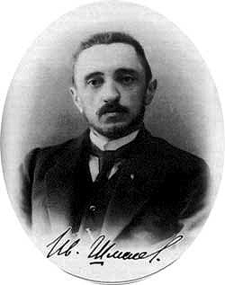 Photo of Ivan Shmelyov with his Signature